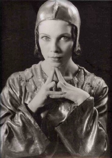 Tilly Losch